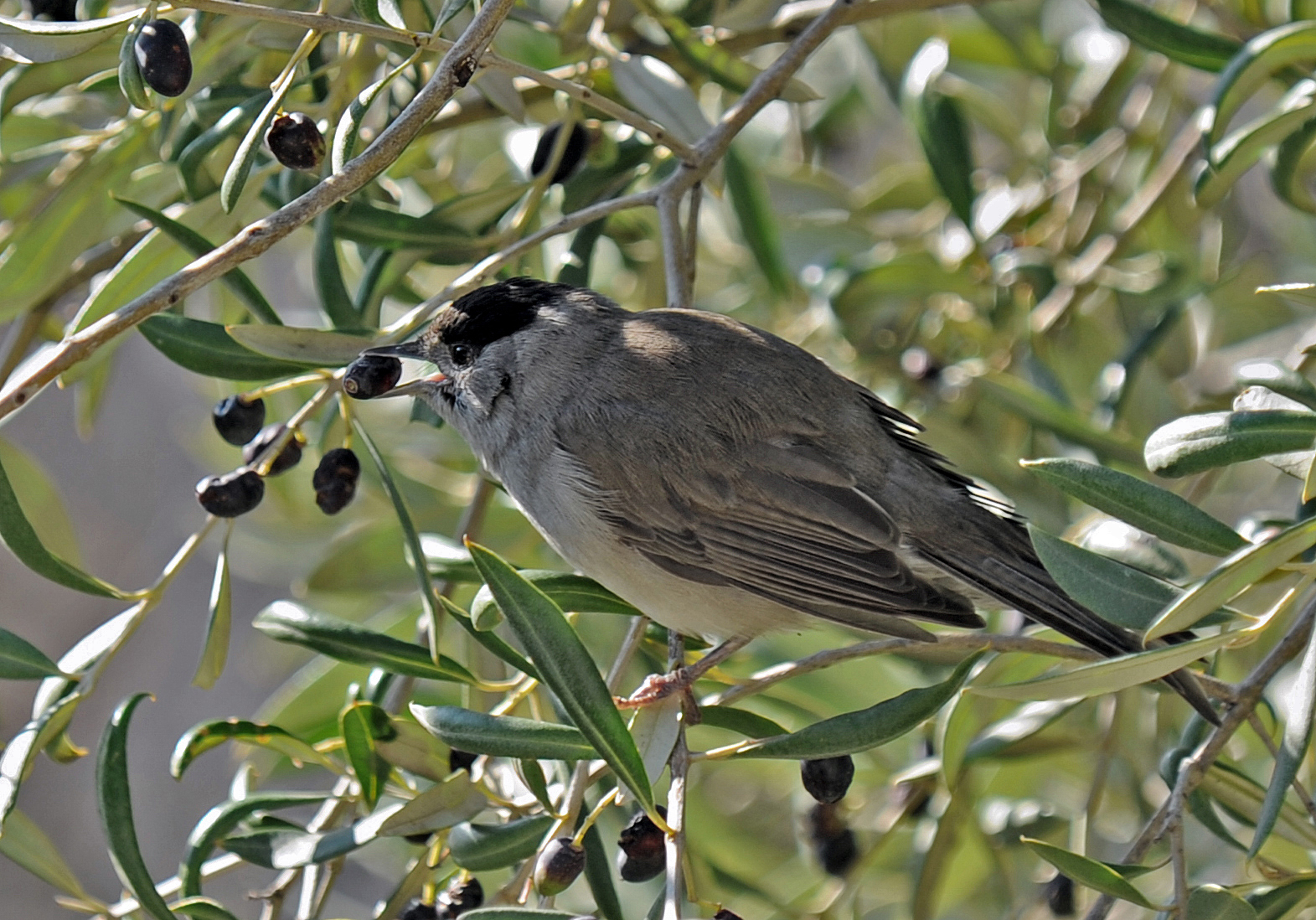 Male blackcap, Sylvia atricapilla, feeding on Olea europaea at Nice, France, in December 2008